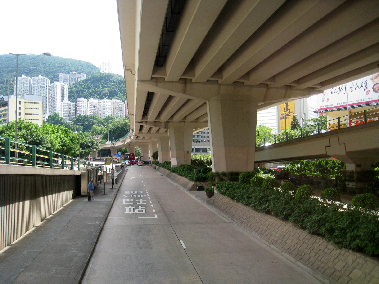 Canal Road East Flyover under 堅拿道東